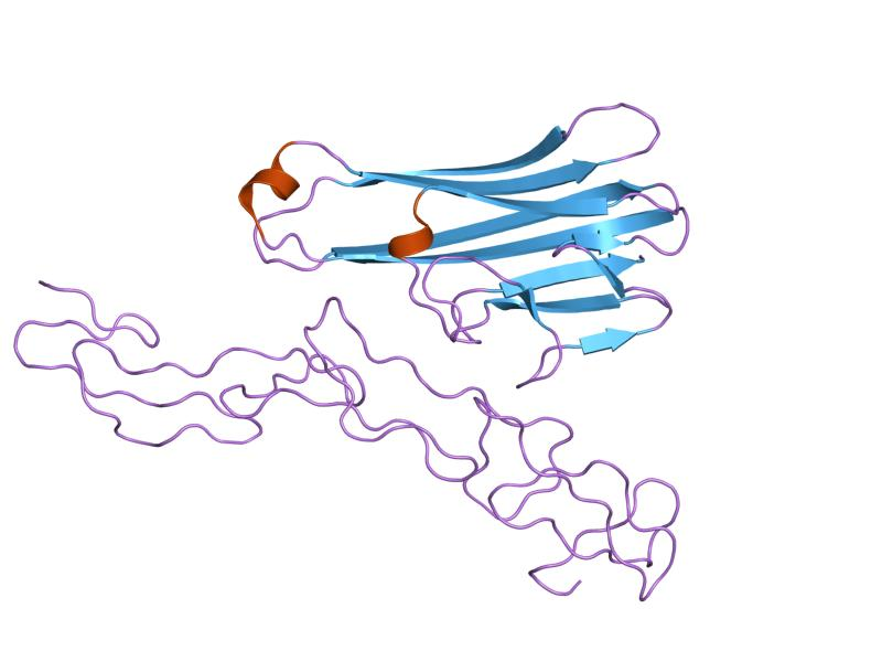 Cartoon representation of the molecular structure of protein registered with 1tnr code.